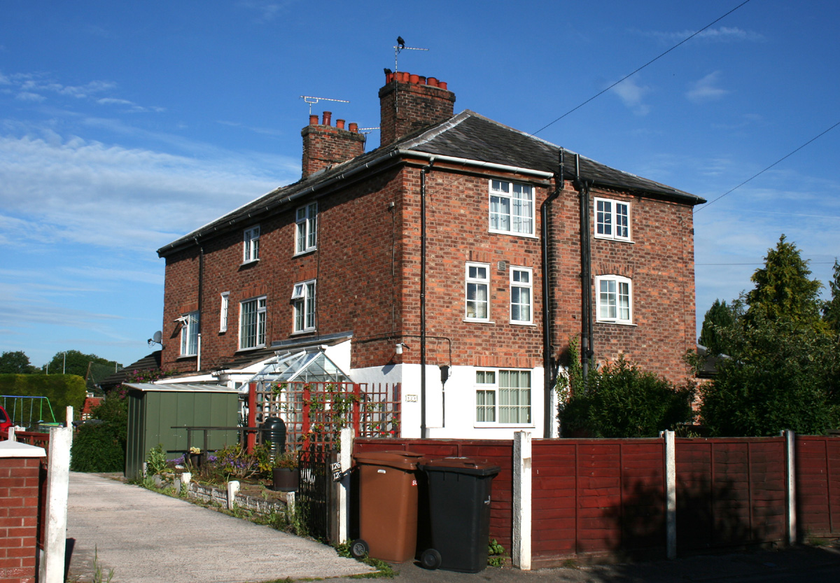 Beehive Cottages, 120–126 Audlem Road, Nantwich; a former poorhouse